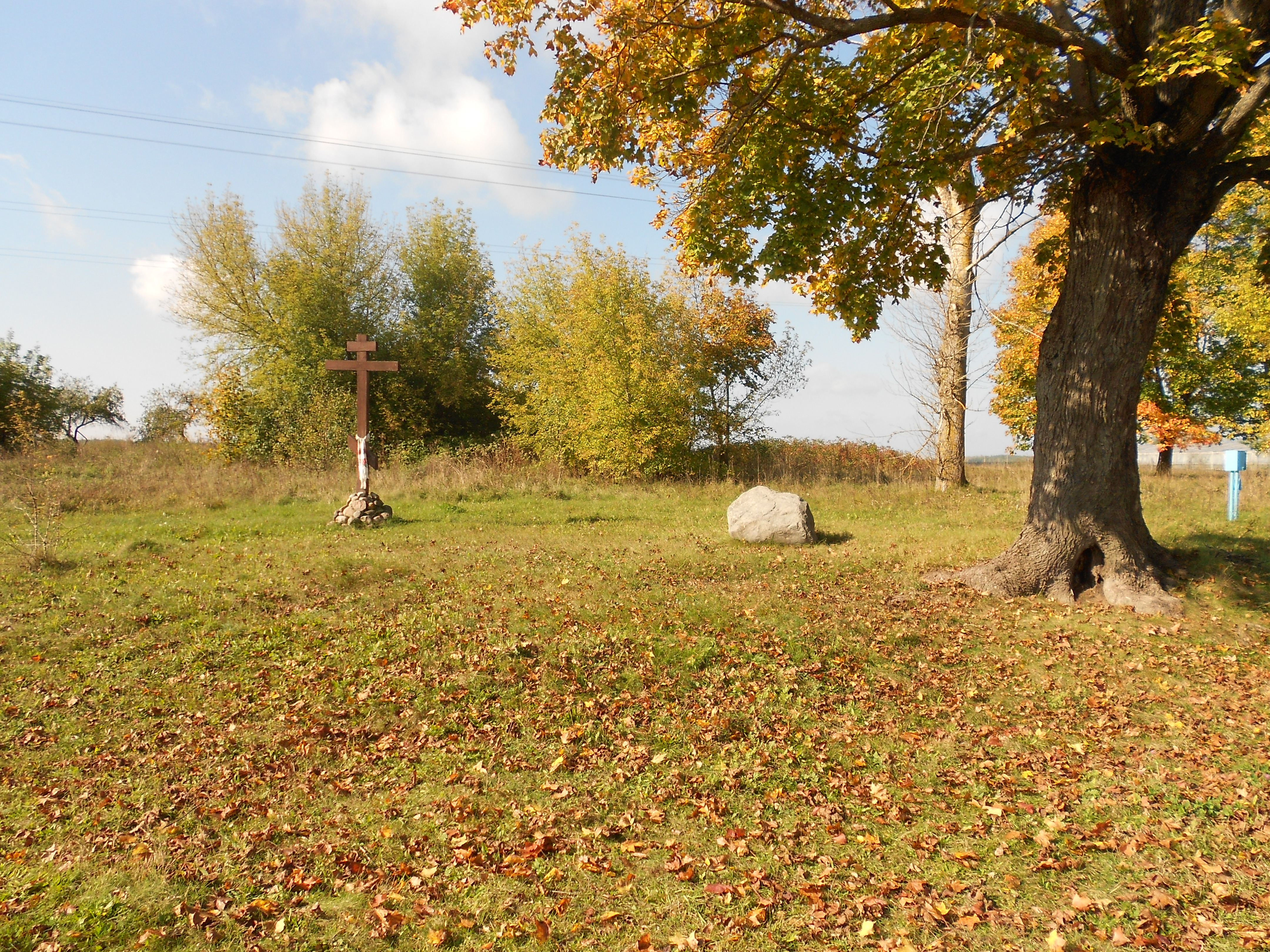 Former Church Site. Village Černin, Mikalajeuski Sieĺski Saviet, Svietlahorski Rajon, Homielskaja Voblasć, Belarus.